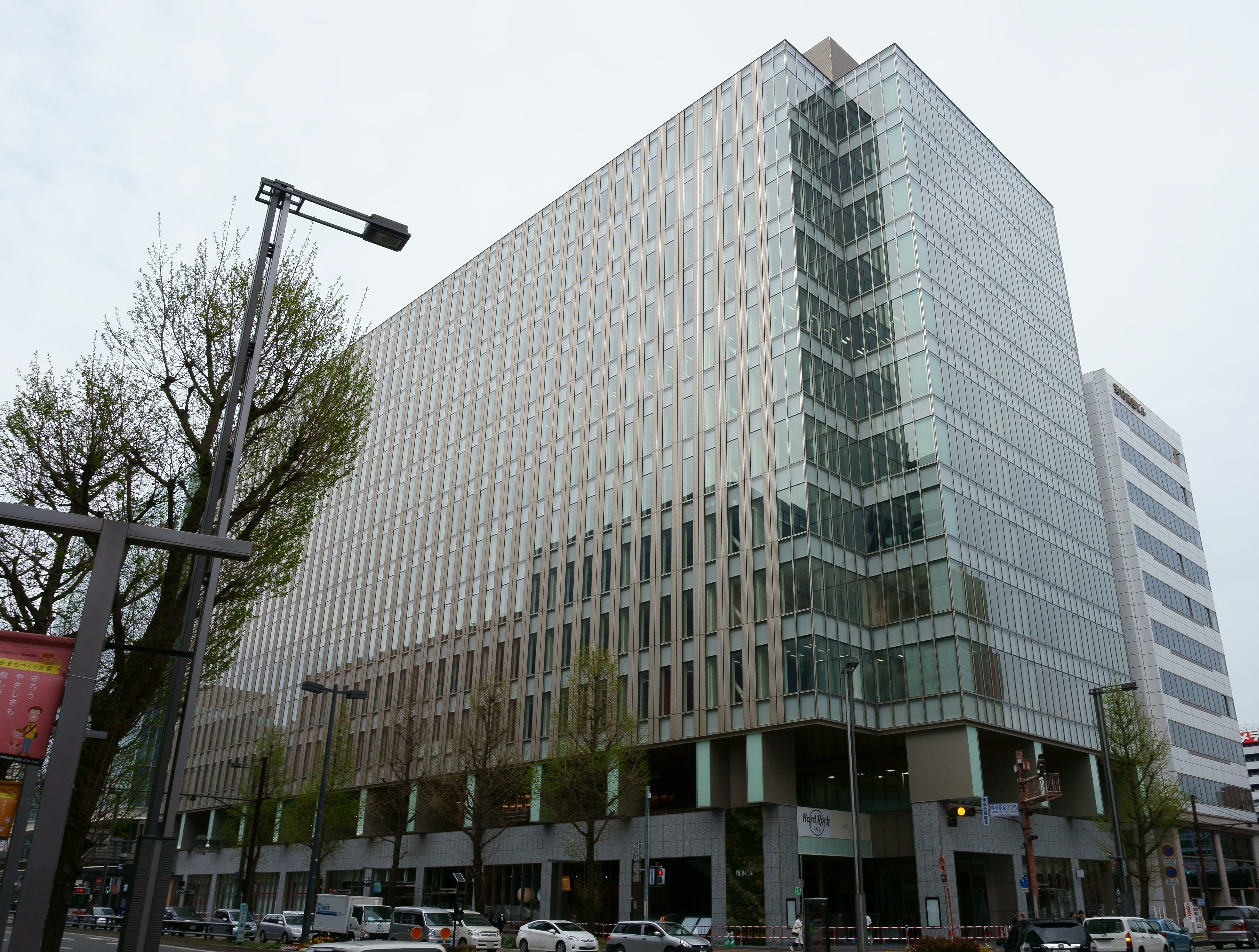 JRJP Hakata Building in Fukuoka City, Japan. It had hosted the Royal Thai Consulate-General from October 2018 until October 2019.